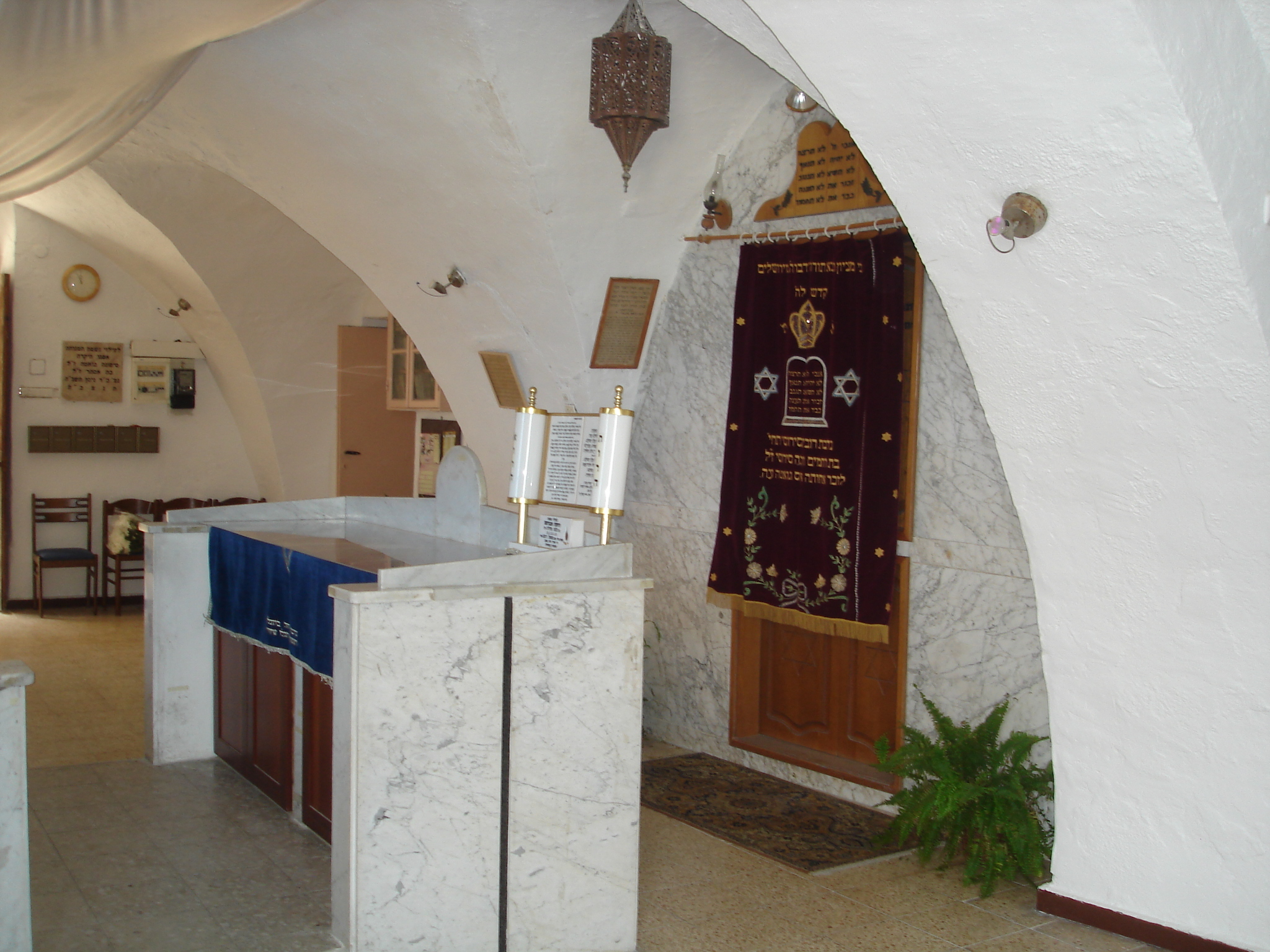 The interior of the Libyan synagogue in Jaffa (Israel)